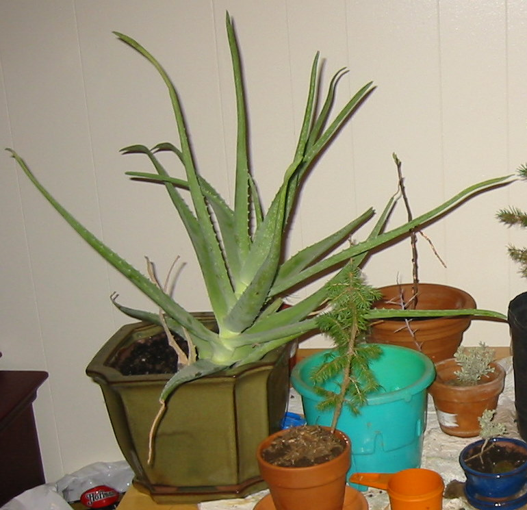 An Aloe vera houseplant, shortly after transplation. See also Image:Aloe vera with shoots 2.jpg, Image:Aloe vera with shoots 3.jpg, and Image:Aloe vera with shoots 4.jpg for the same plant at different stages of growth, when it sprouts multiple offsets.